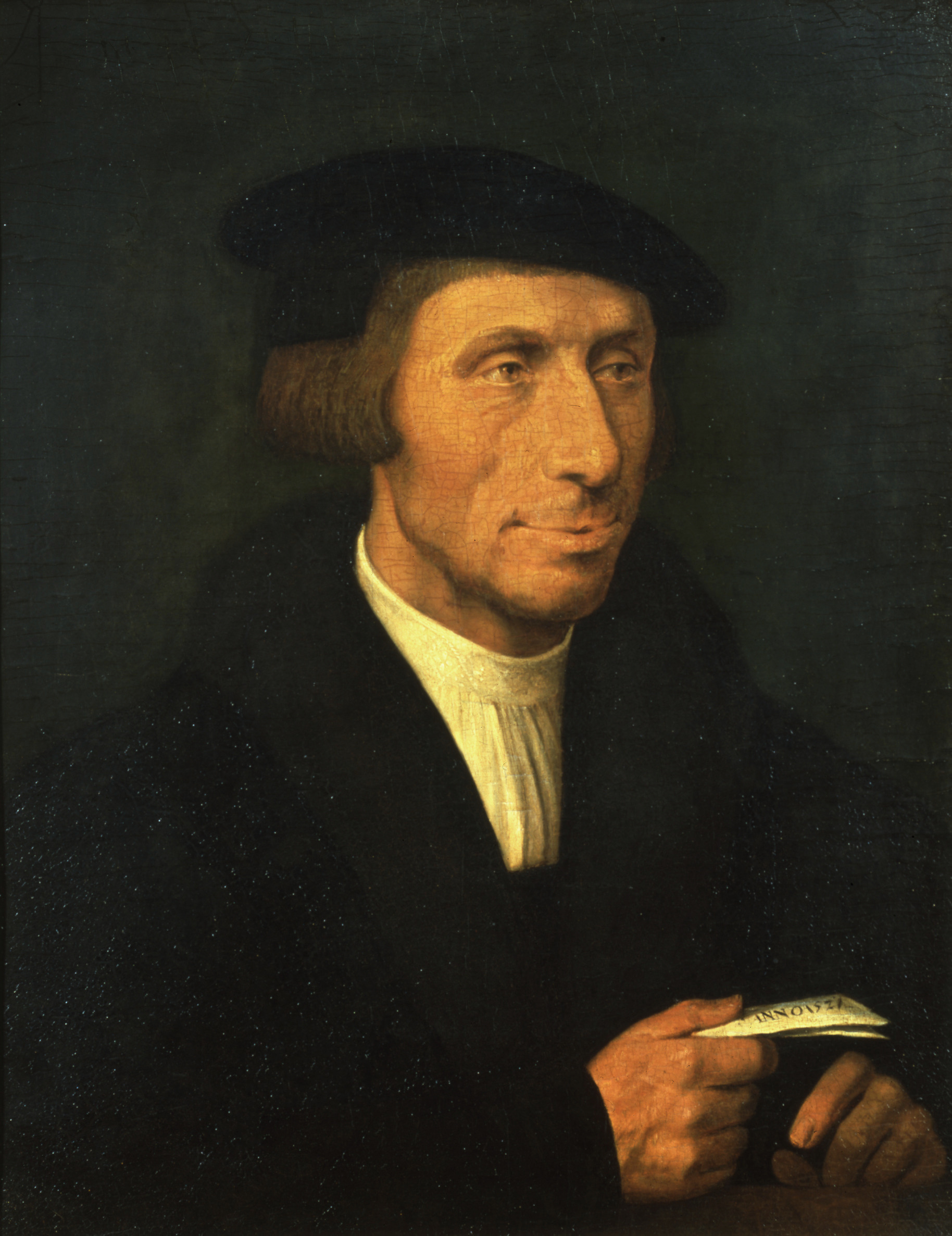 Portrait of Thomas Linacre (or Lynaker) (c.1460-1524), copied by William Miller (College Beadle and amateur painter), 1810, from a painting at Windsor Castle. This is the usually accepted image of Linacre. However the identification has been challenged and the original at Windsor is now catalogued as An Elderly Man.